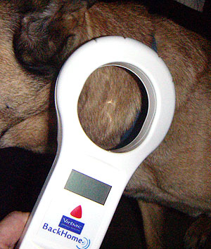 Transponder reader when reading the transponder data to a dog